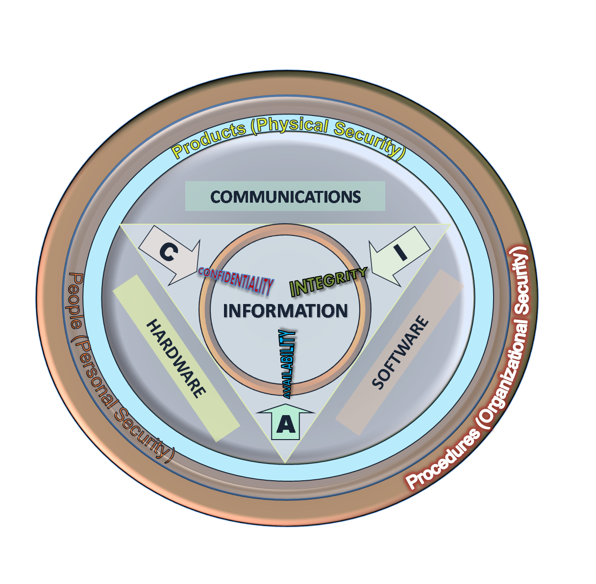 The Information Security triad: CIA. Second version